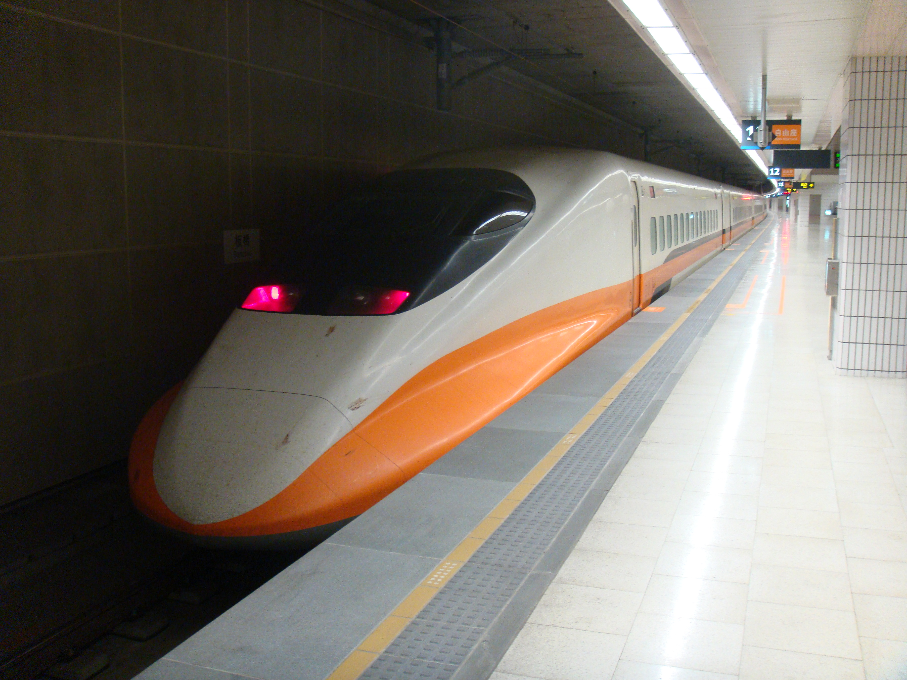 Taiwan High Speed Rail Shinkansen 700T at platform of Banciao Station.